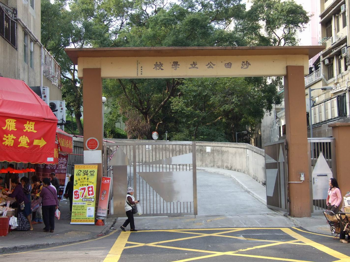 Front entrance of Shatin Public School (Hong Kong)